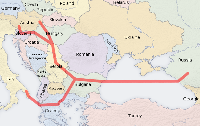 Map of South Stream gas pipeline. The route is displayed according to [1]. Someone should probably take care of displaying Kosovo and Abkhazia correctly.